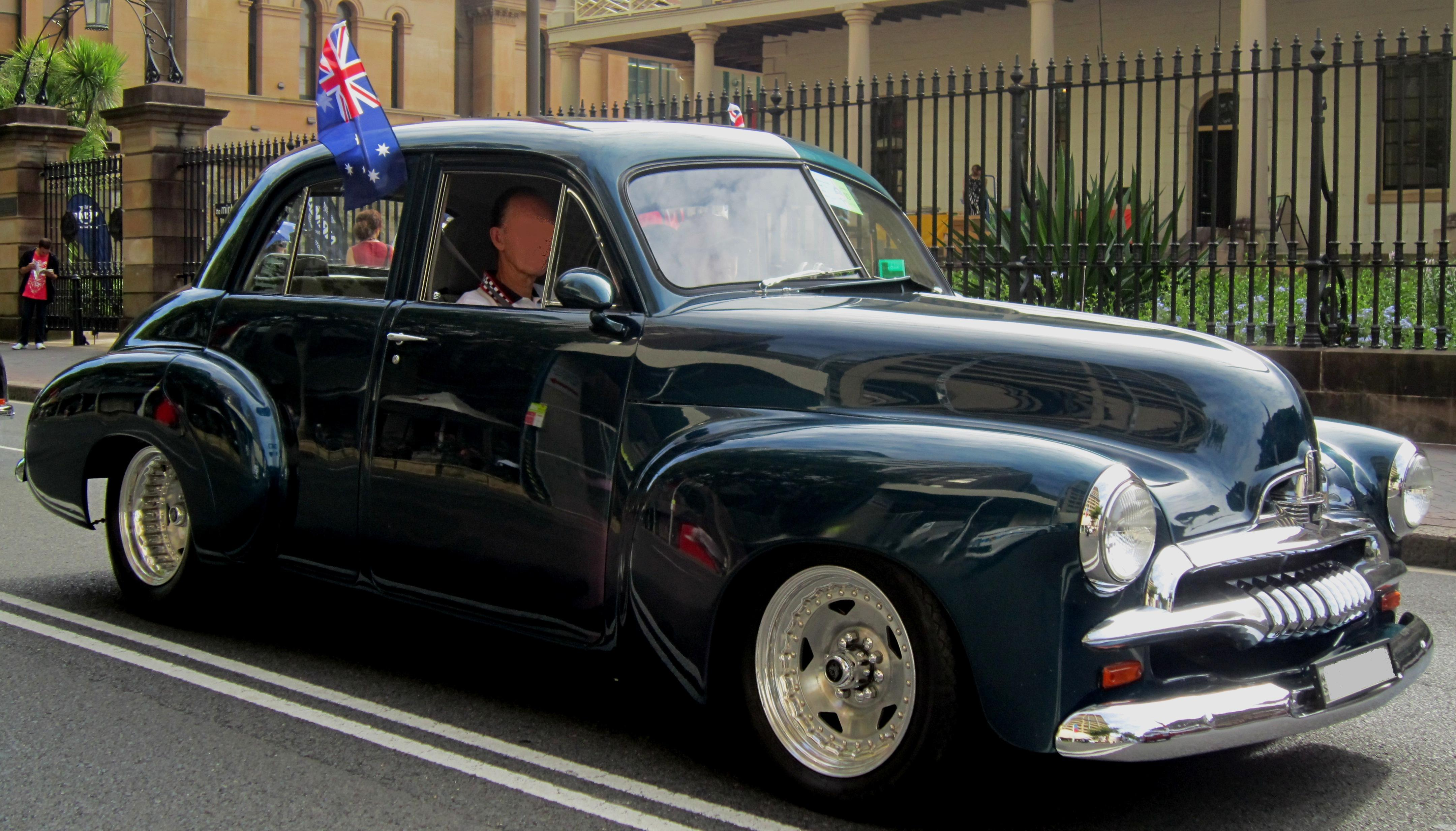 While your here, you can also check out the video footage from NRMA Motorfest 2011, featuring just some of the various models on display, but perhaps also providing a reason to come along to the 2012 NRMA Motorfest, if you werent able to make 2011 NRMA Motorfest. You can check out the footage here at; NRMA Drivers Seat